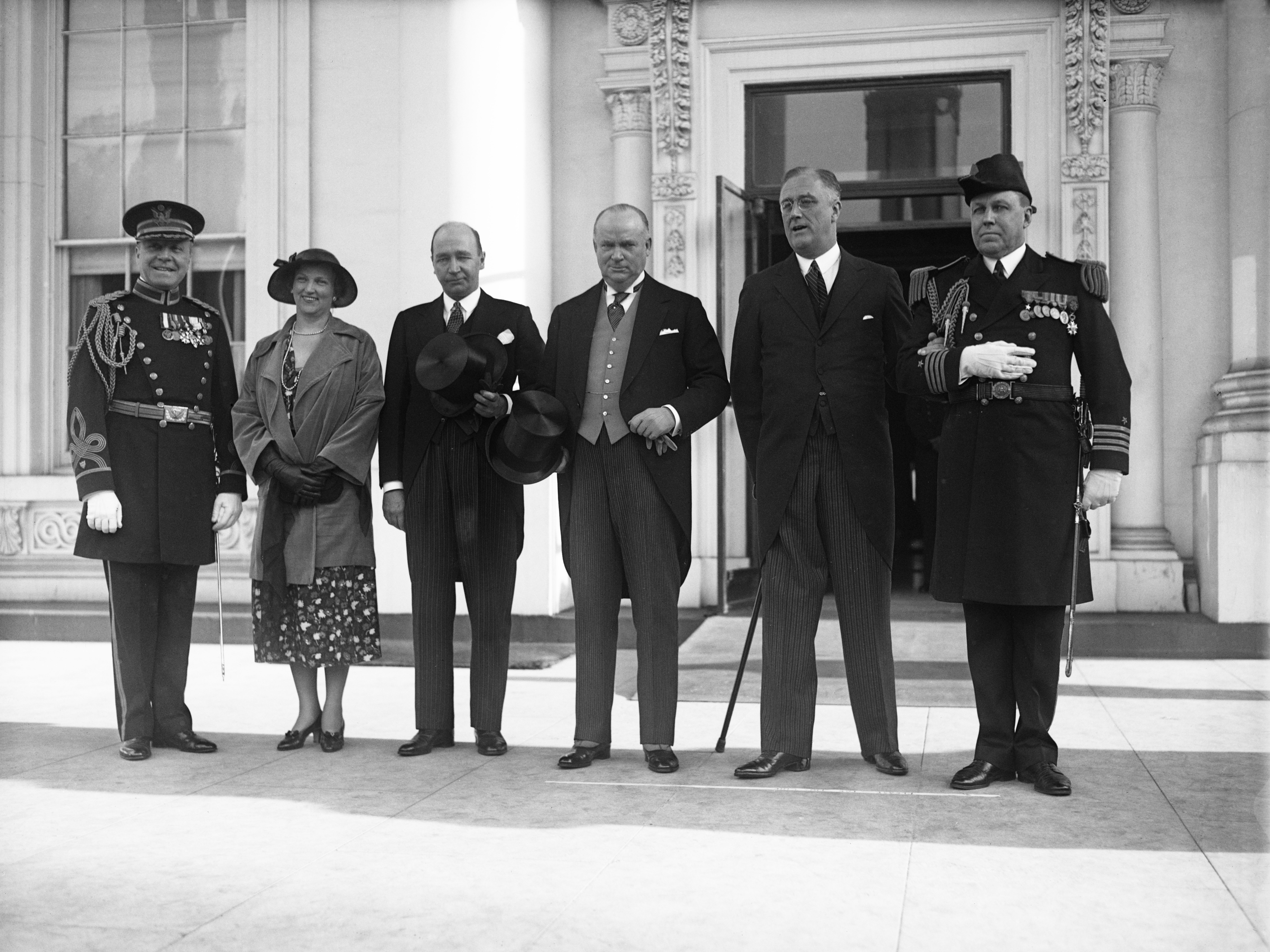 CANADIAN PRIME MINISTER ARRIVES AT WHITE HOUSE. PRIME MINISTER RICHARD B. BENNETT OF CANADA, ARRIVED AT THE WHITE HOUSE TODAY TO TAKE PART IN THE DISCUSSIONS ON THE COMPLICATED FOREIGN EXCHANGE PROBLEM. IN THE PHOTOGRAPH, L TO R: COL. JAMES ULIO, MILITARY AIDE; MRS. WILLIAM D. HERRIDGE, WIFE OF THE MINISTER FROM CANADA; MINISTER HERRIDGE; PRIME MINISTER BENNETT; PRESIDENT ROOSEVELT; AND CAPT. WALTER VERNOU, WHITE HOUSE NAVAL AIDE.